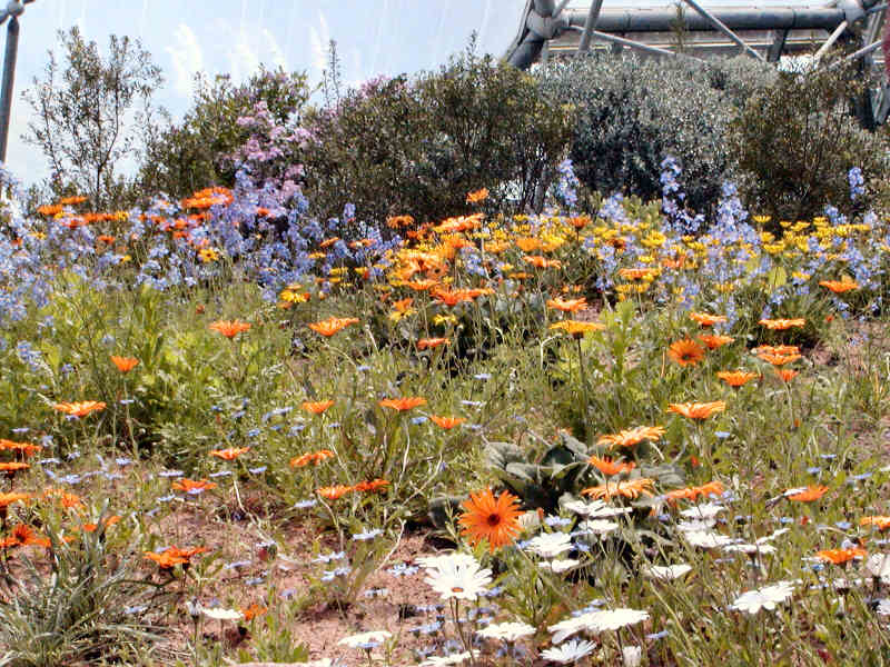 Eden Project: Prairie flowers